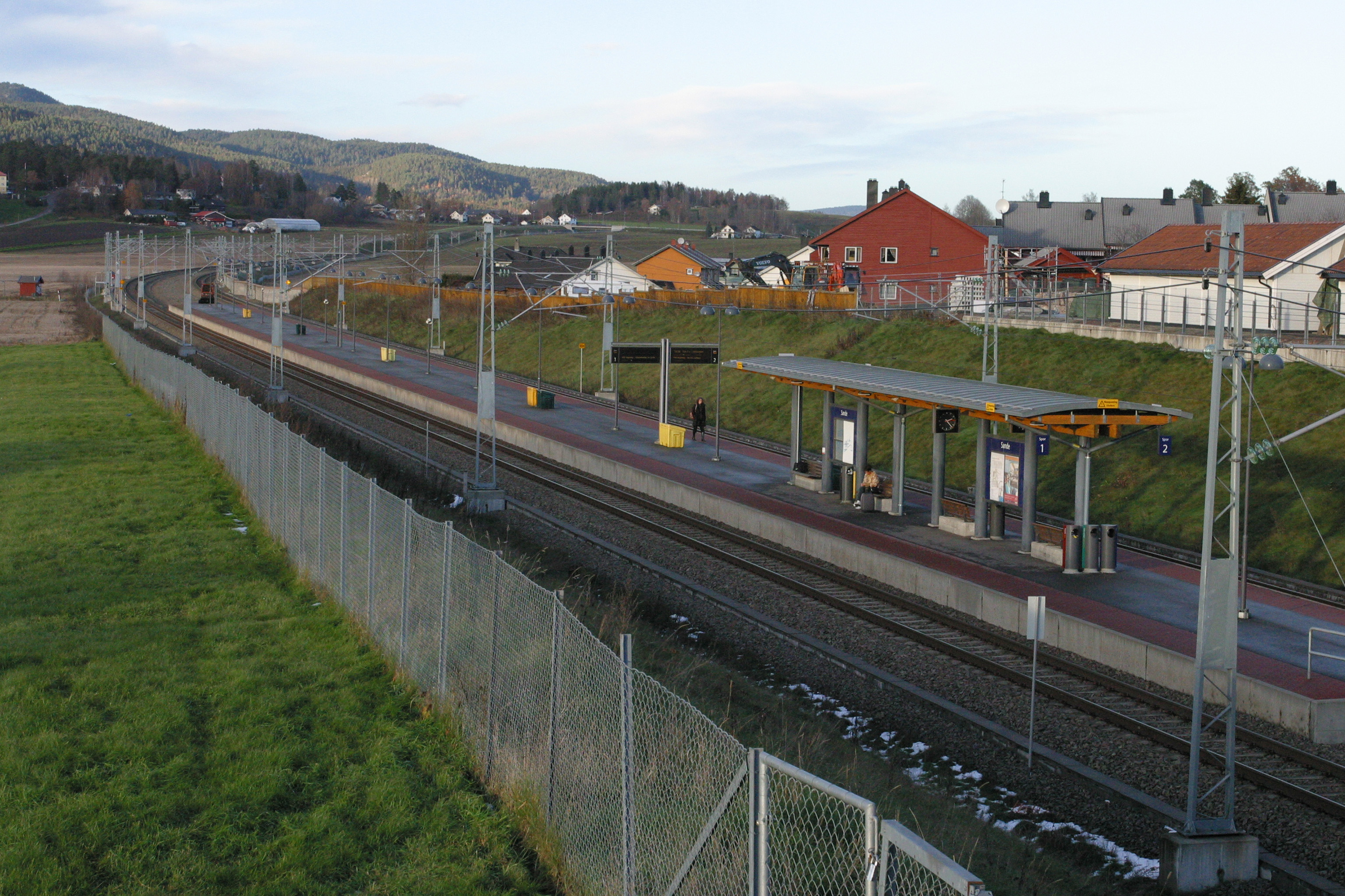 Picture of Sande Railway Station (Norway)